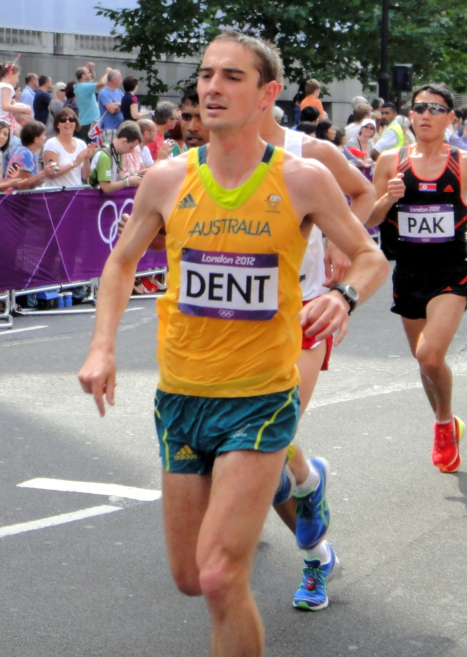 Martin Dent (Australia) & Song-Chol Pak (Republic of Korea) - London 2012 Men's Marathon